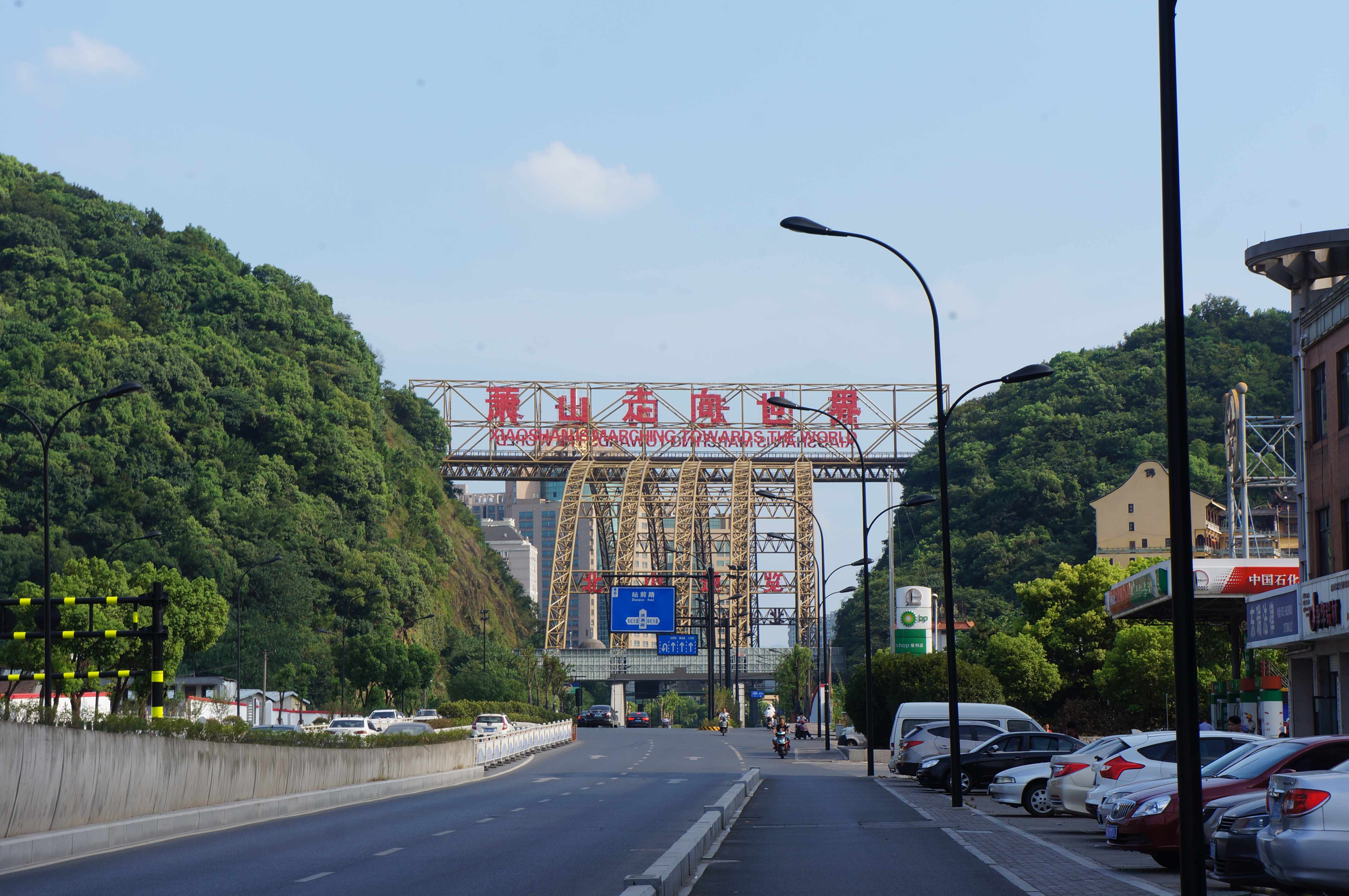 201607 A slogan in Xiaoshan